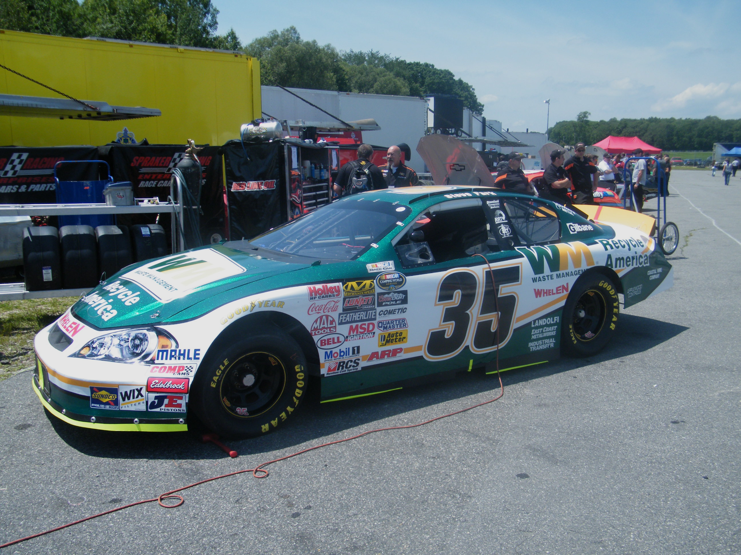 Steve Park's 2009 Camping World East car at Thompson Speedway.